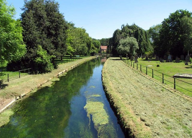 New River, Broxbourne